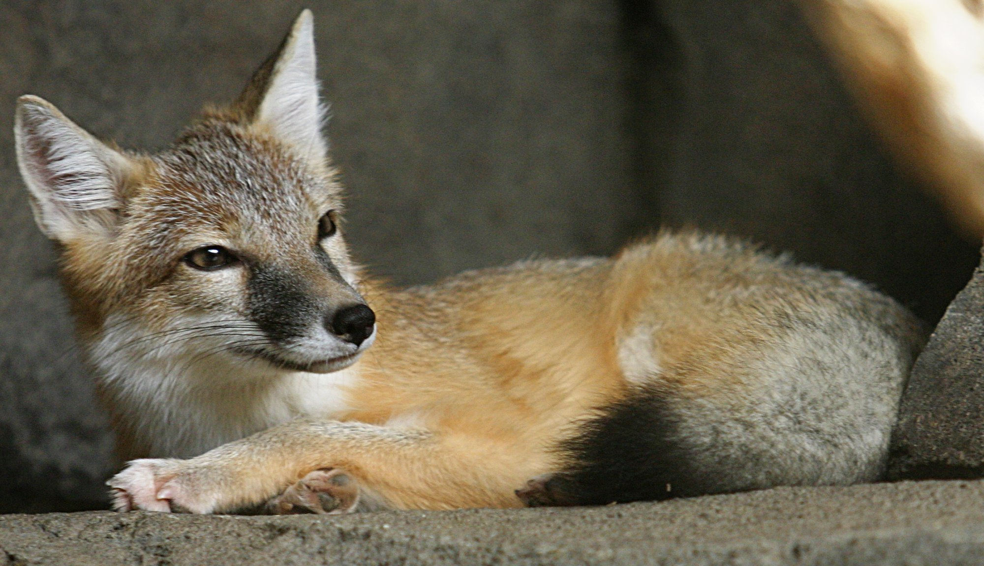 A Swift Fox at the Henry Doorly Zoo in Omaha, Nebraska.